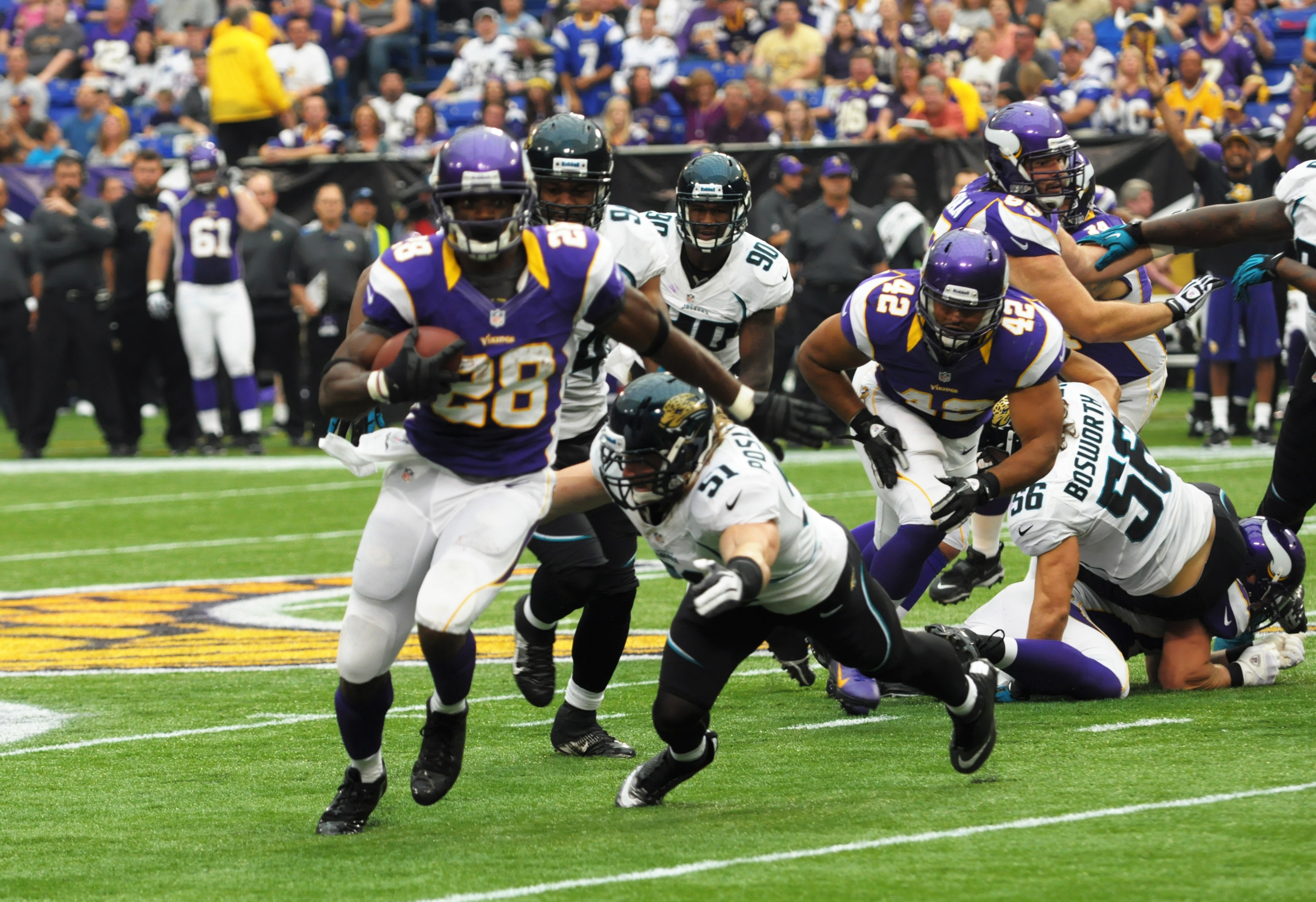 Peterson during the first 2012 NFL season's match, while he estabilished the new franchise rushing yard record